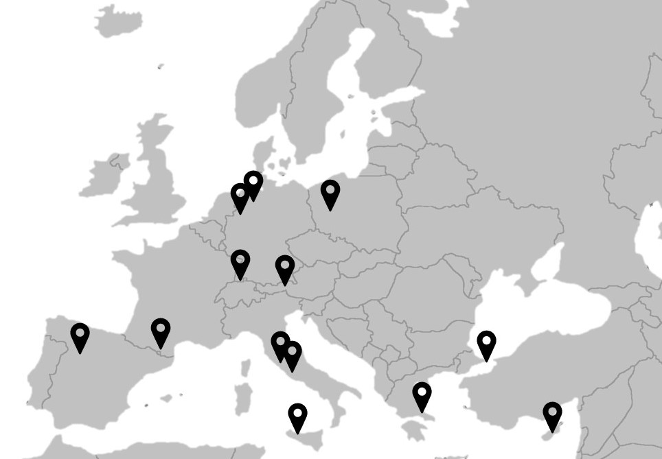 Karte mit Partneruniversitäten